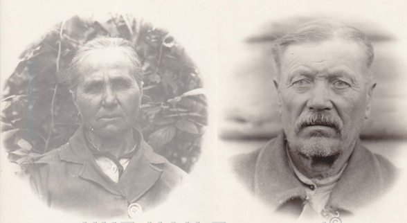 Parents of V. F. Kuprevich